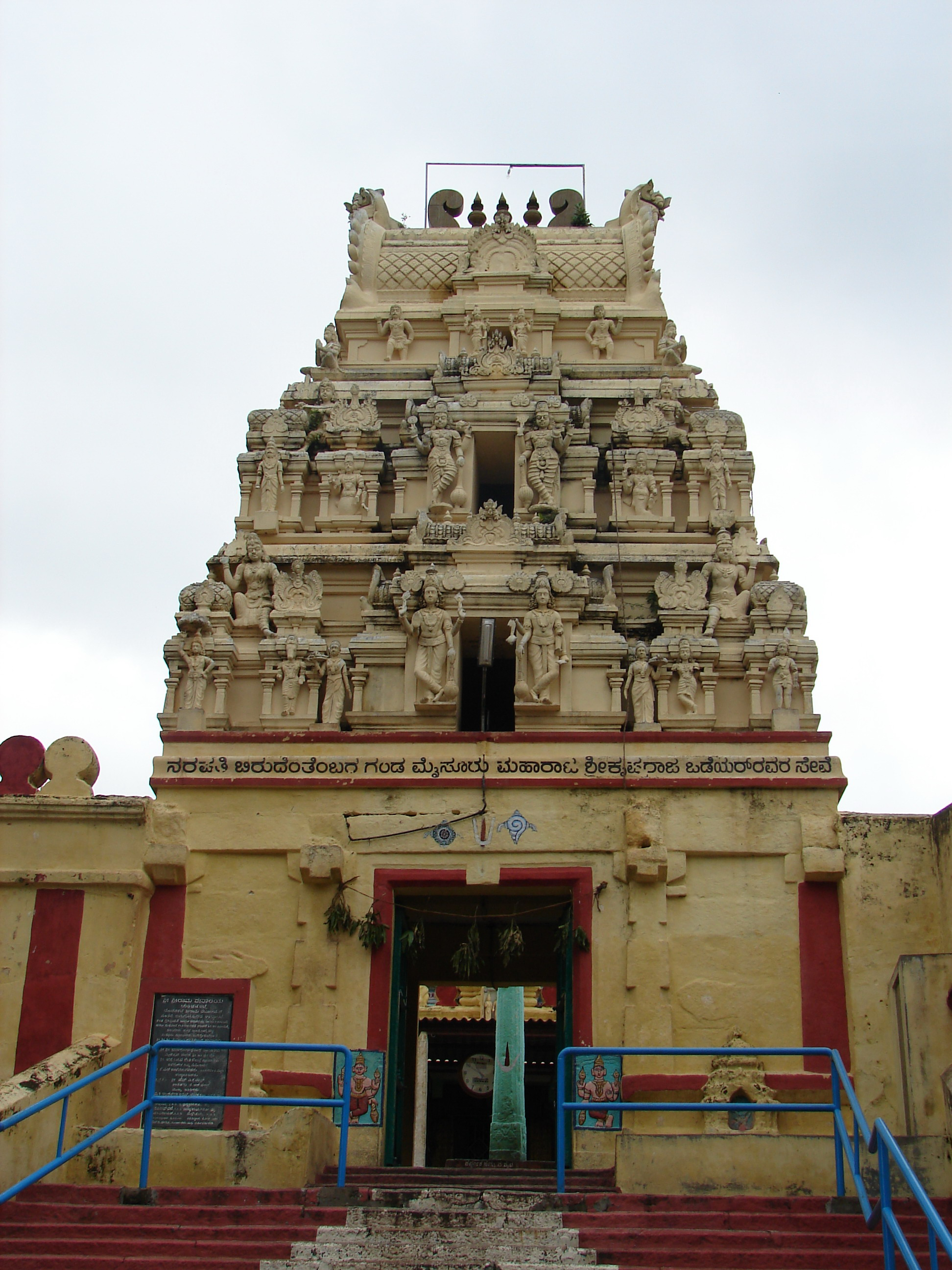 This photograph was taken by me at the Kodanda Rama temple, Chunchanakatte, Mysore district, Karnataka state, India. The temple was built in the 19th century in Vijayanagara style by King Krishnaraja Wodeyar of the Princely state of Mysore